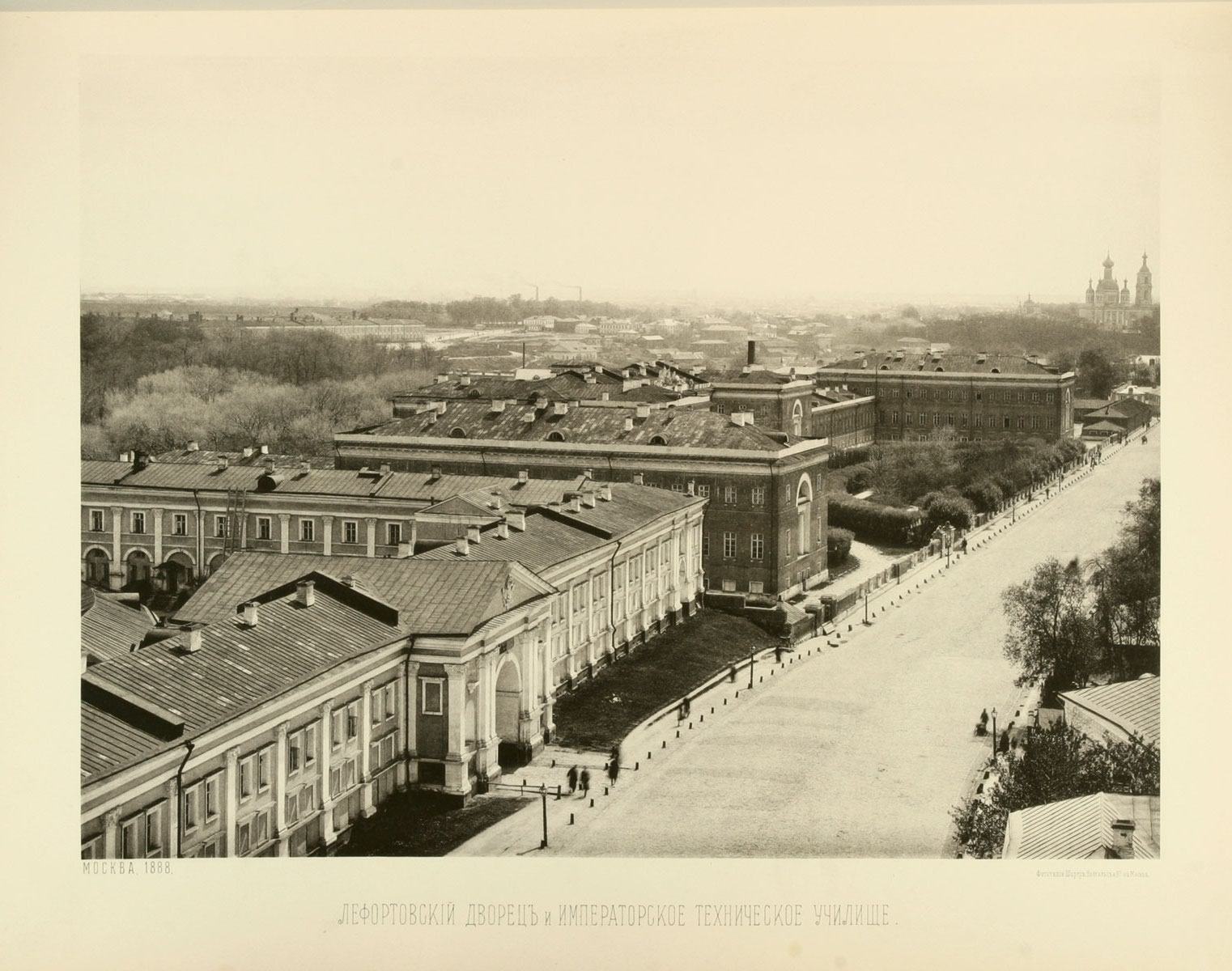 View of Lefortovsky and Slobodskoy palaces in Moscow. The street in front of the camera is present-day Second Baumanskaya Street, former Korovy Brod Street. The picture was, most likely, taken from the fire watch tower of Lefortovo police department (2009 photo - without watch tower). Far right: Old Believers churches in Lefortovo.